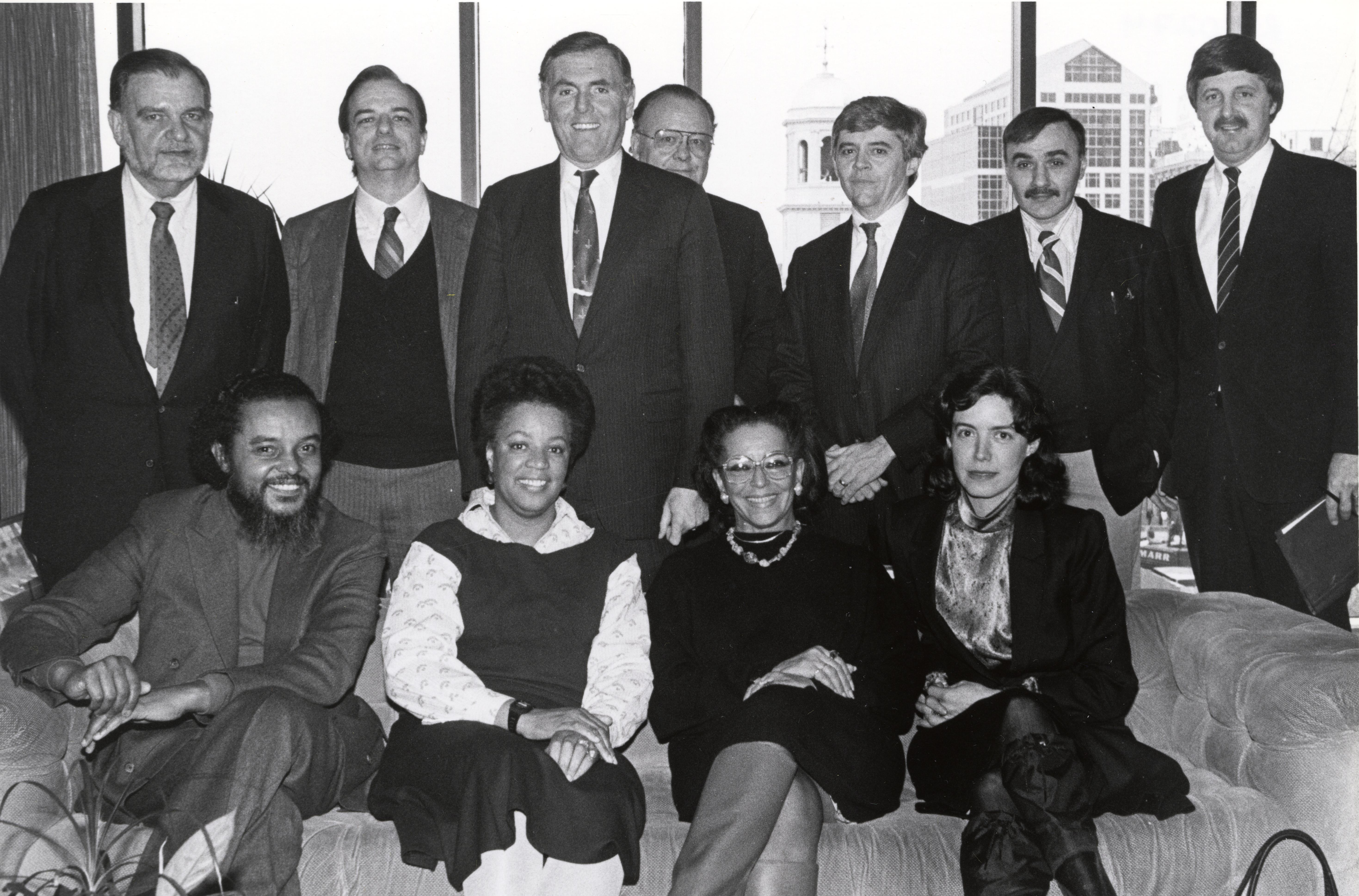 Title: Back row: Patrick Cusick, Michael Kane, Mayor Raymond L. Flynn, unidentified, BRA Director Stephen Coyle, BPL Director Arthur Curley, Elderly Affairs Commissioner Michael Taylor. Front row: Rep. Byron Rushing, Jeanette Boone-Smith, Frieda Garcia, Charlotte Kahn Creator: Mayor's Office - City Photographer Date: circa 1984-1987 Source: Mayor Raymond L. Flynn records, Collection #0246.001 File name: RF_0274 Rights: Copyright City of Boston Citation: Mayor Raymond L. Flynn records, Collection #0246.001, City of Boston Archives, Boston